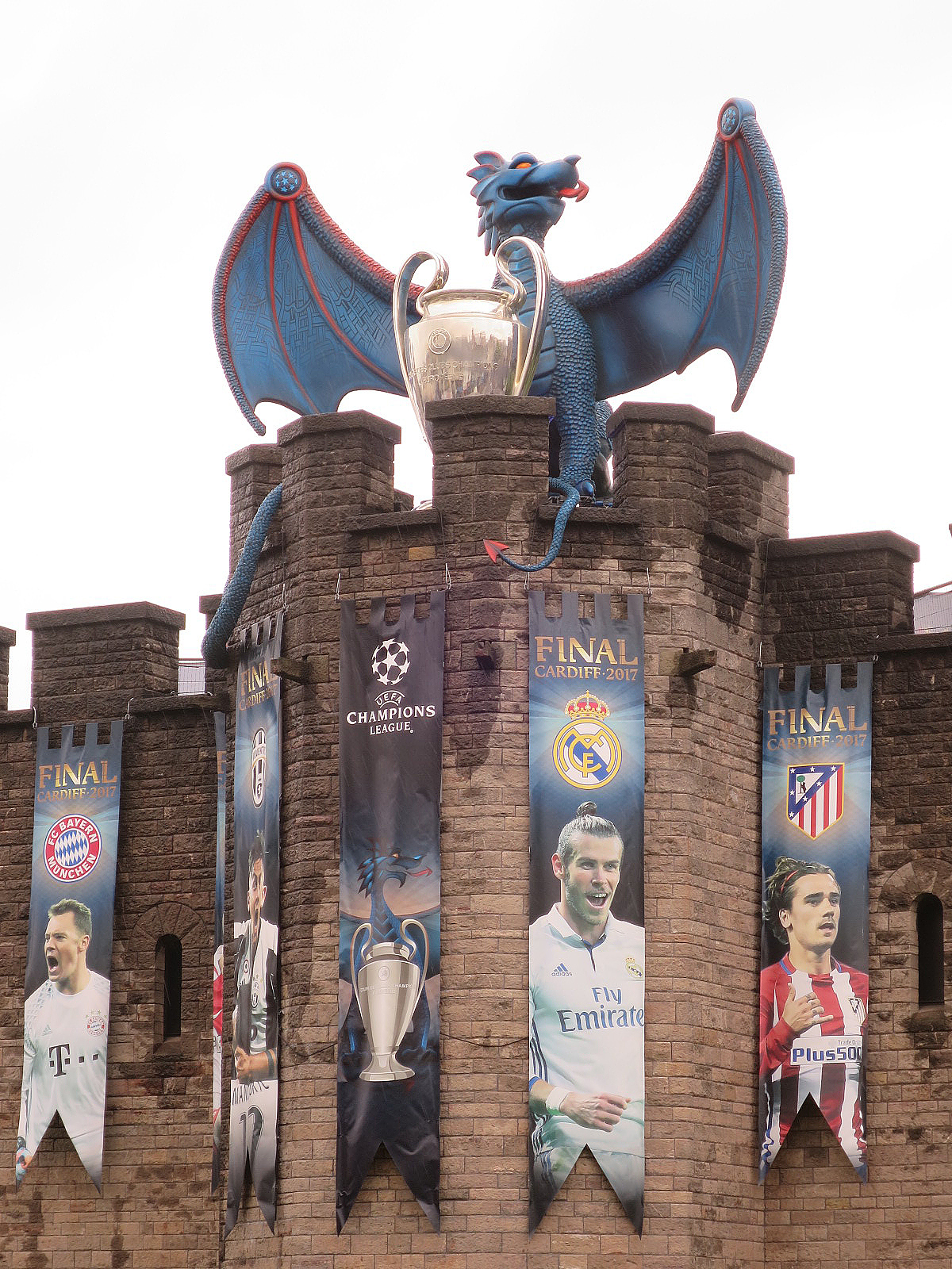 Champions League Final flags at Cardiff Council